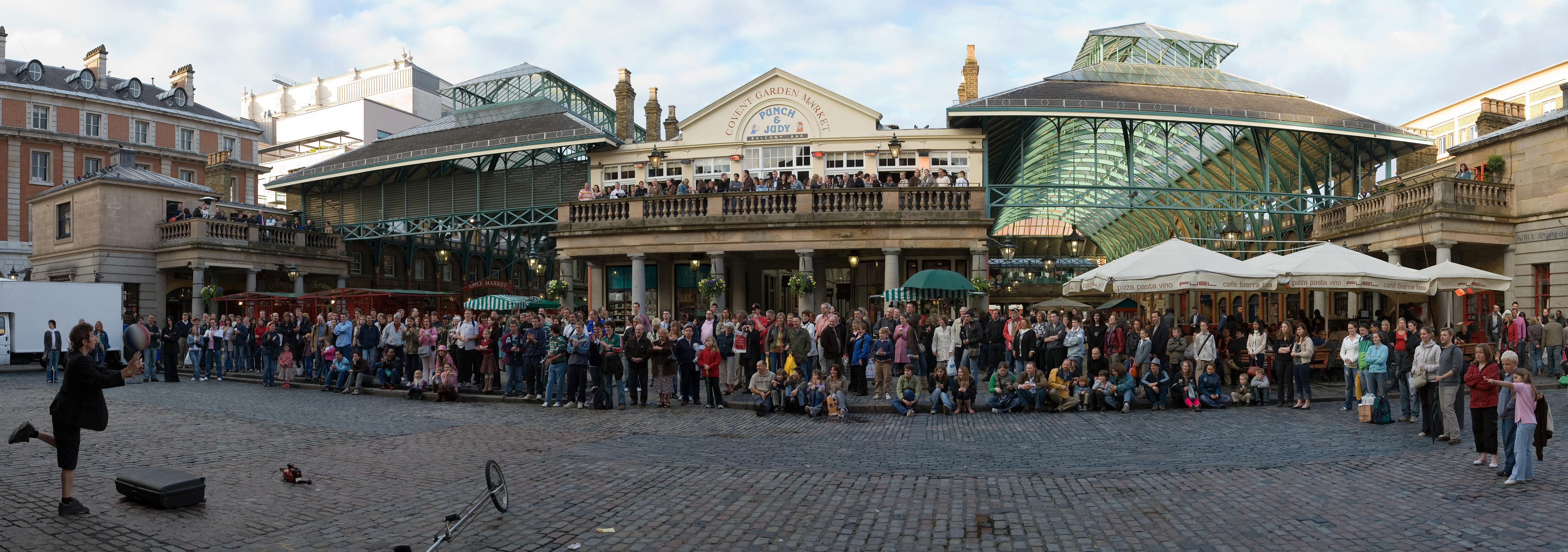 A panoramic scene of Covent Garden, London and a street performer in front of a crowd